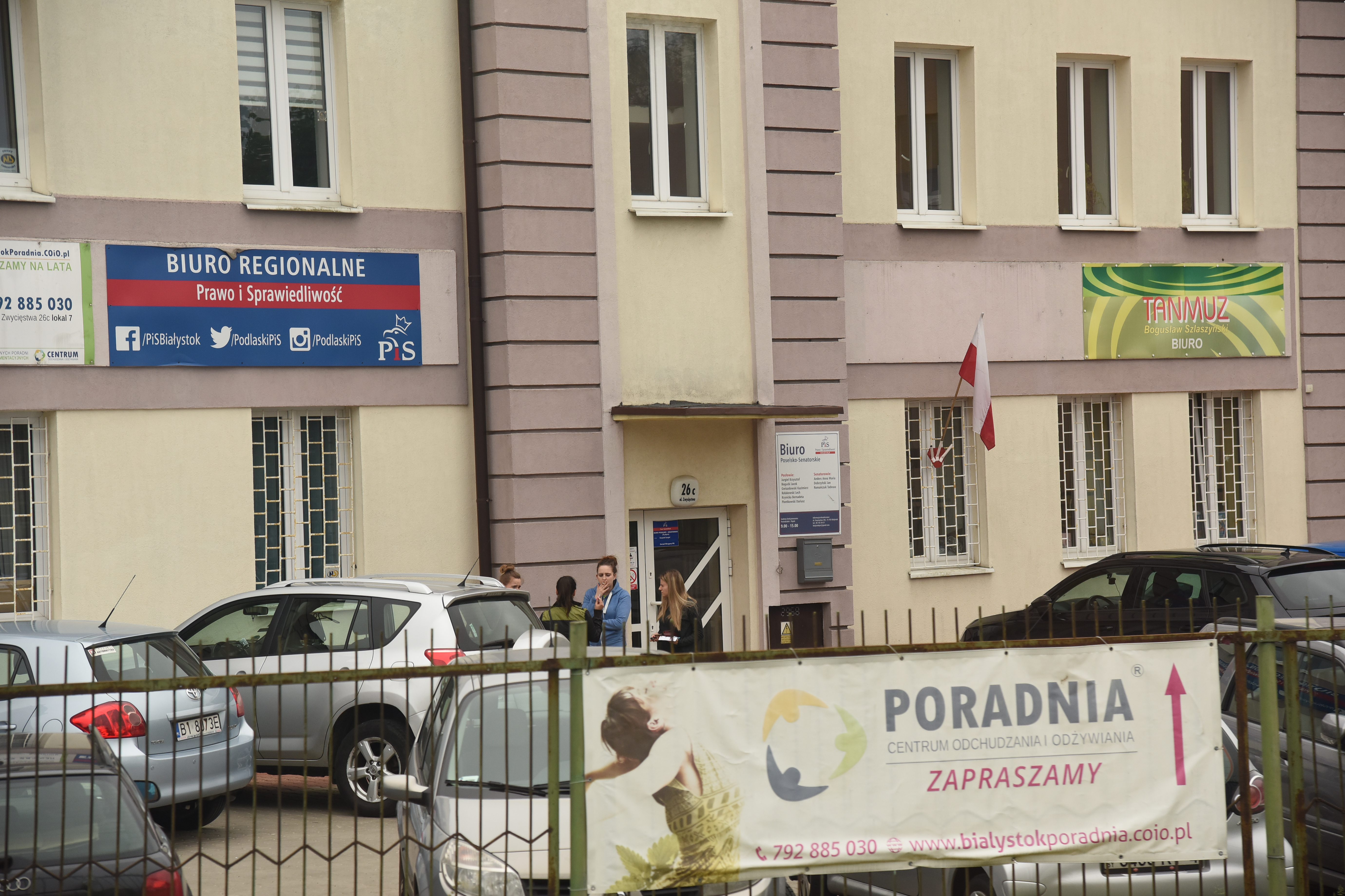 Zwycięstwa Street 26 C, Białystok. Prawo i Sprawiedliwość